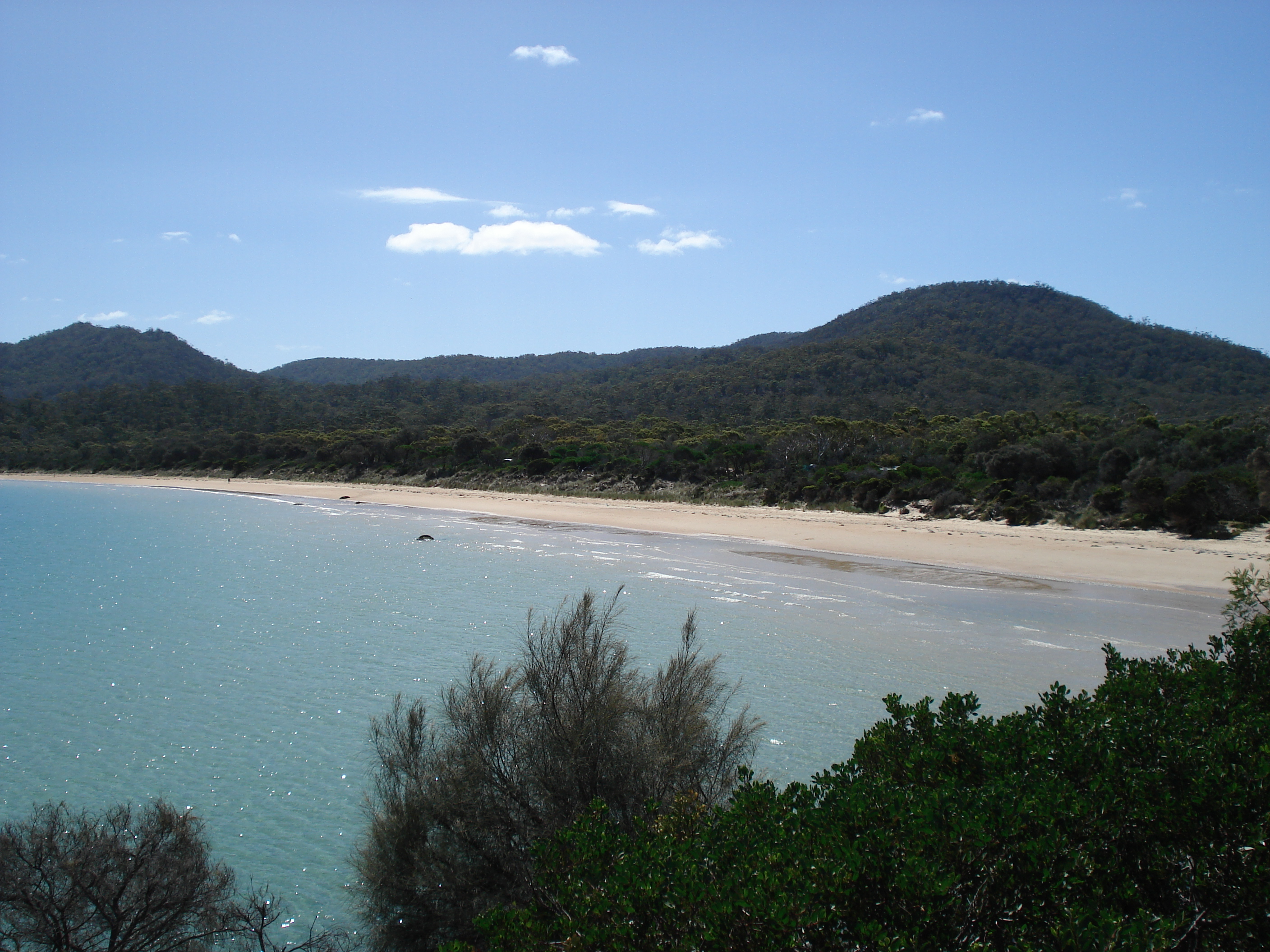 Beach near Coles Bay